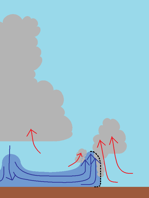 System of gust front.Gust front is formed at boundary between downburst and outer air. Black dashed line: gust front